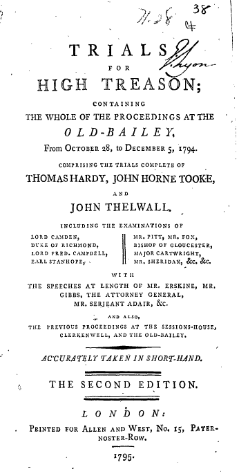 Title page to Thomas Hardy's record of the 1794 Treason Trials